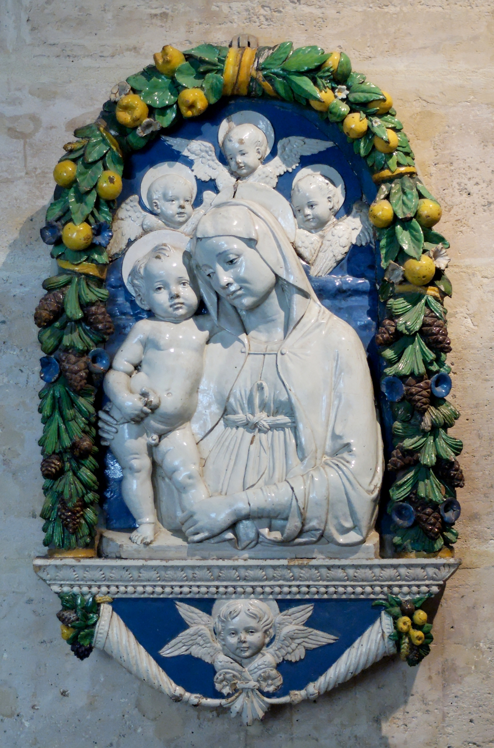 Virgin, Child and three cherubim